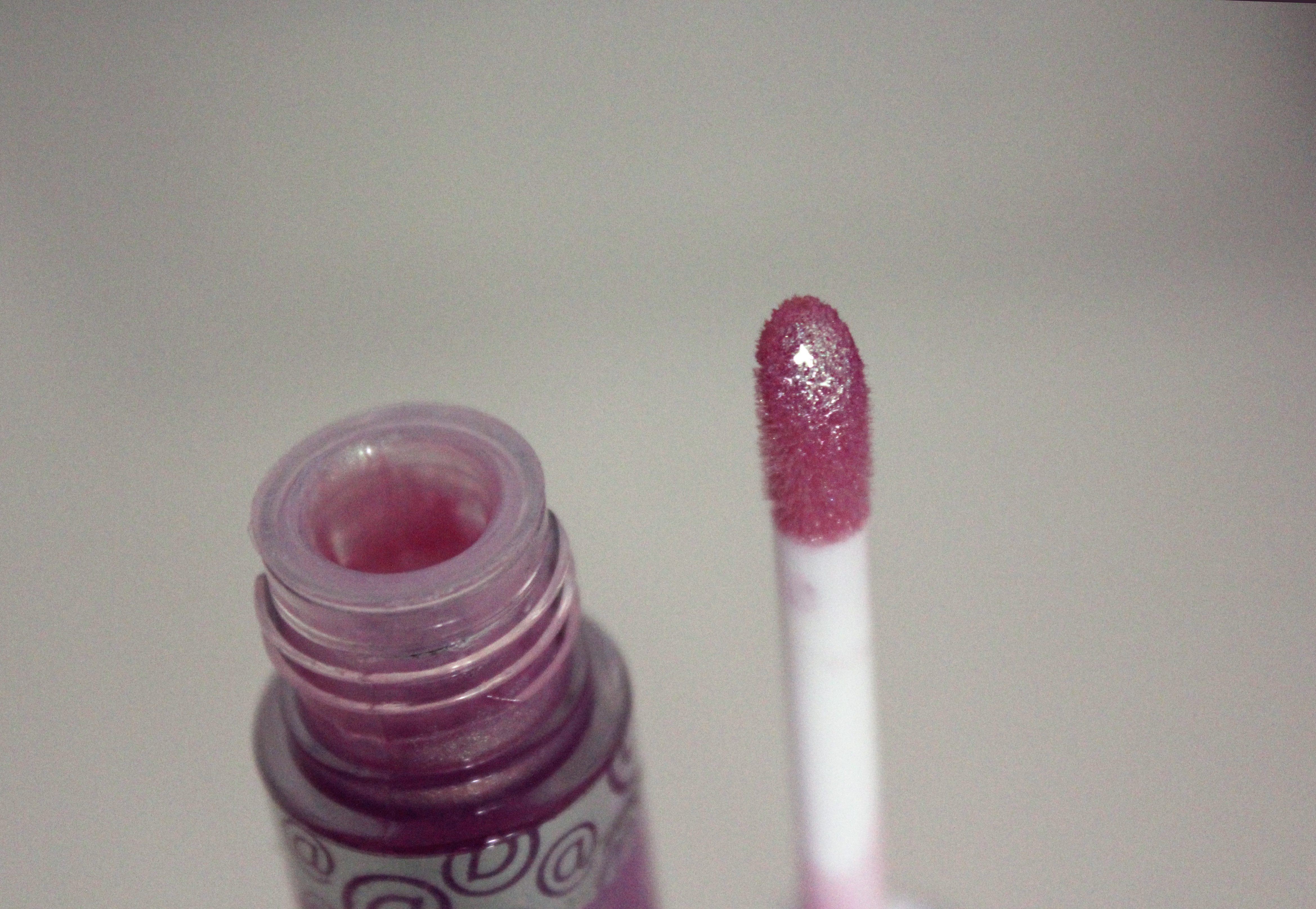 Lipgloss applicator